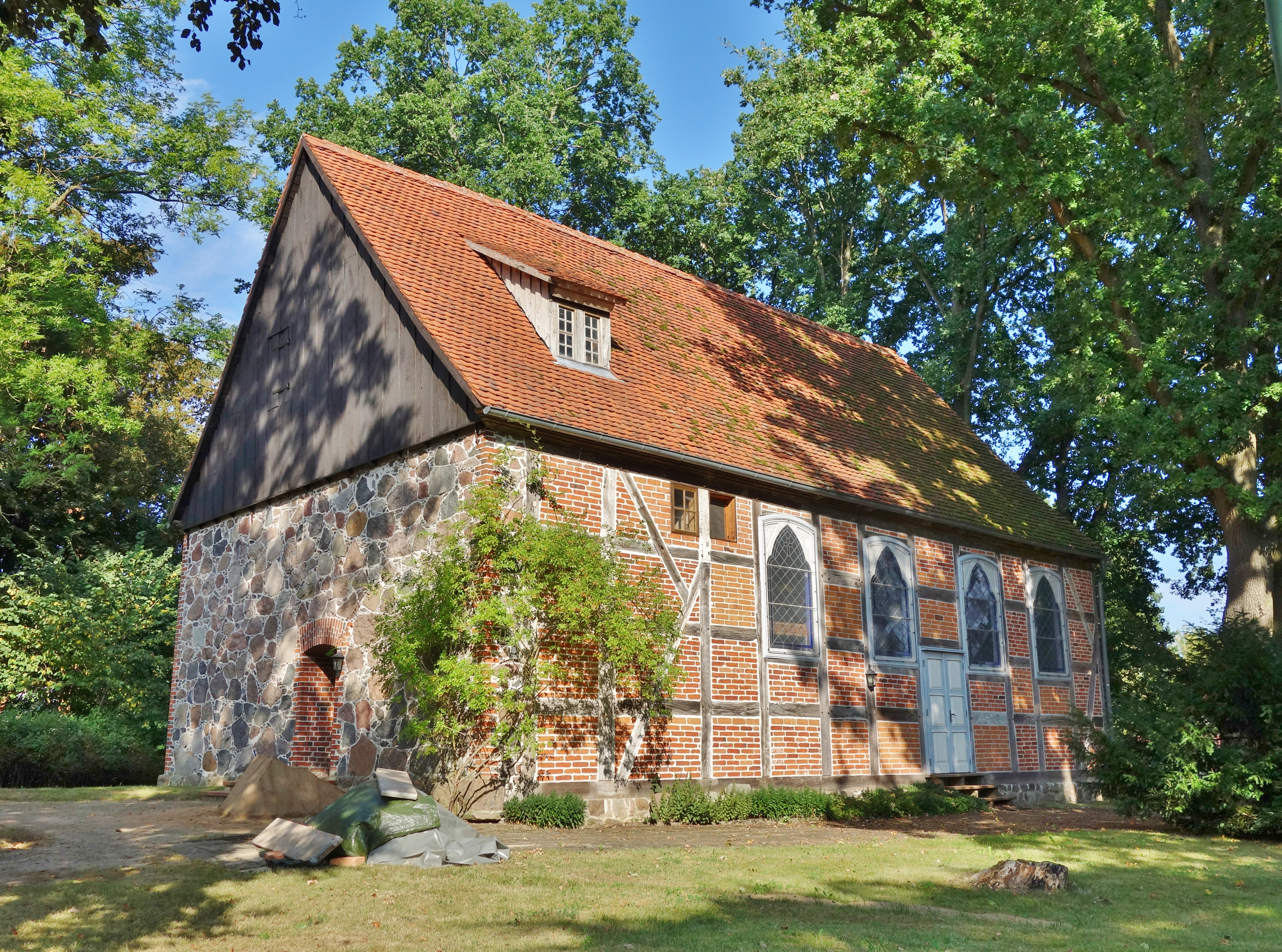 South-western view of church in Halenbeck, Halenbeck-Rohlsdorf municipality, Prignitz district, Brandenburg state, Germany